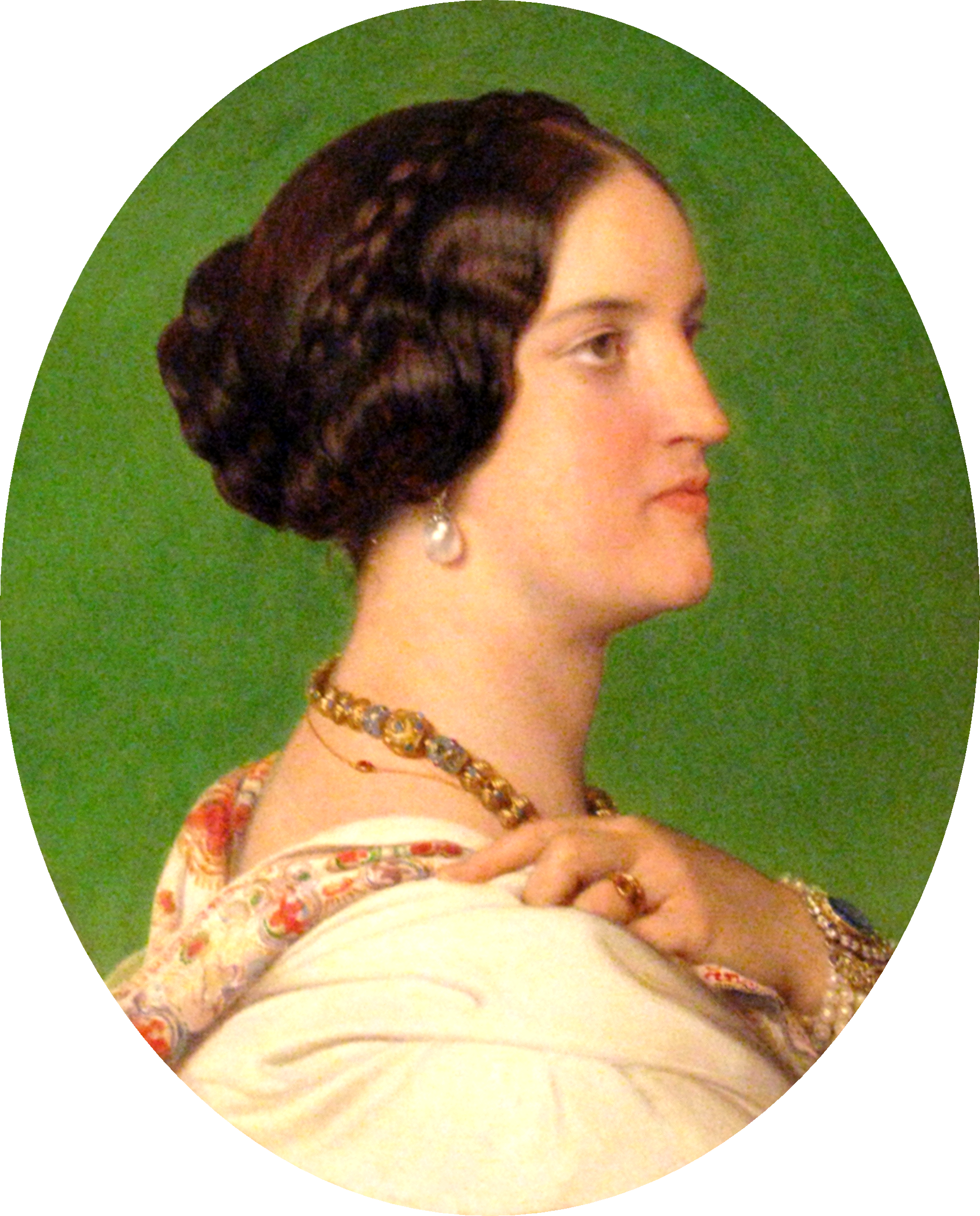 Portrait of Delfina Potocka (1807-1877)